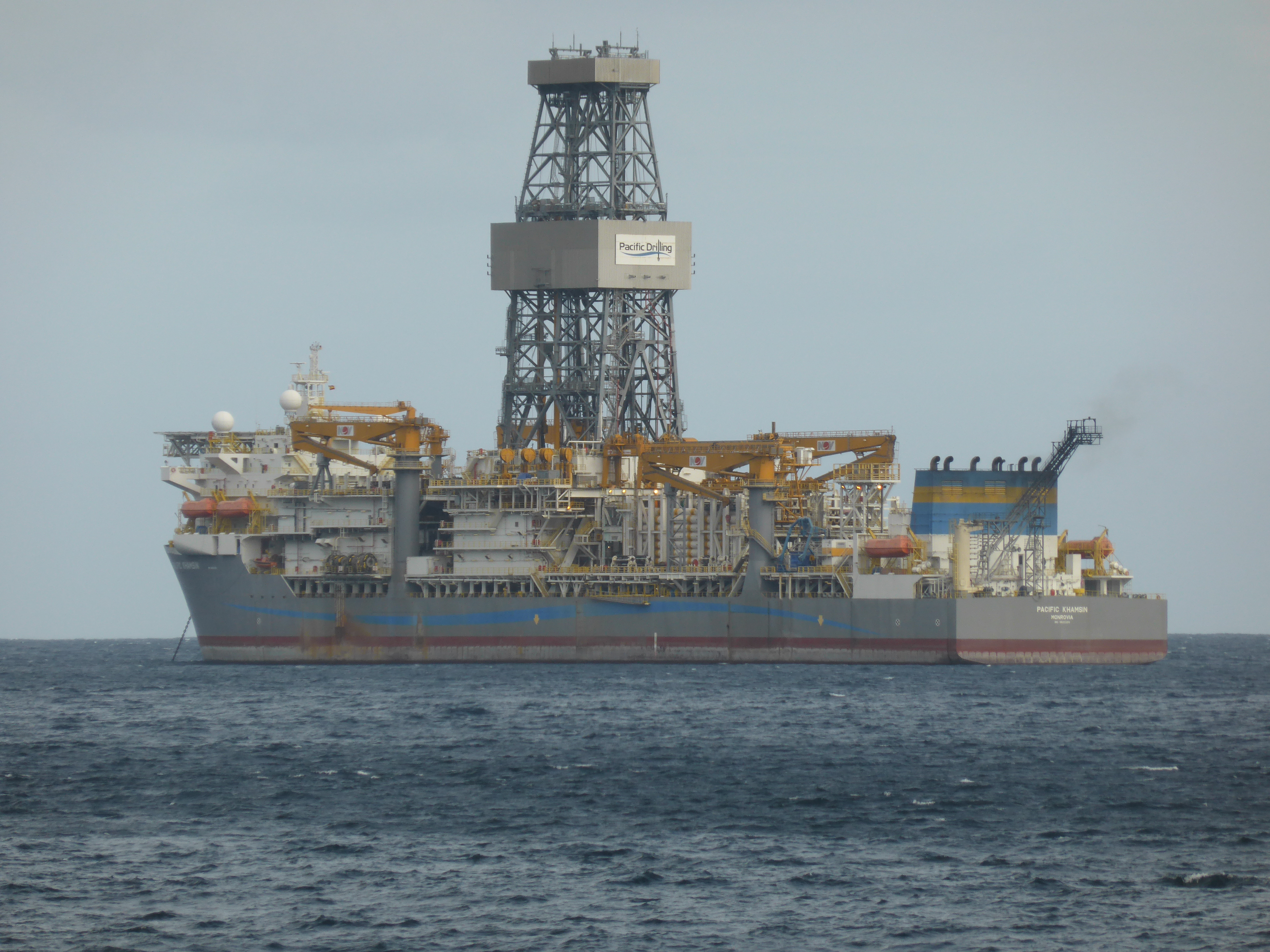 Drill Ship "PACIFIC KHAMSIN". IMO: 9623324. Flag: Liberia [LR]. Length Overall x Breadth Extreme: 228m × 42m. Year Built: 2013. Samsung 12000 design capable of operating in 12,000 feet water depth. Maximum 40,000 feet drilling depth. Builder: SAMSUNG SHIPBUILDING & HEAVY INDUSTRIES - GEOJE, SOUTH KOREA. Manager & owner: PACIFIC DRILLING SERVICES - HOUSTON TX, U.S.A.